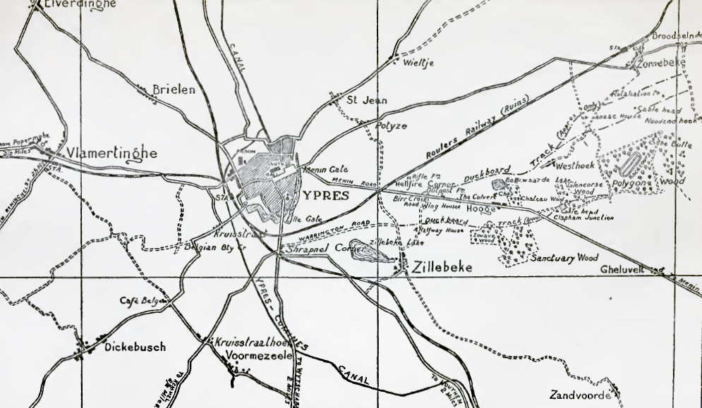 Sketch map of Ypres and the higher ground to the east towards Broodseinde, showing the operational area of the 5th Australian Division